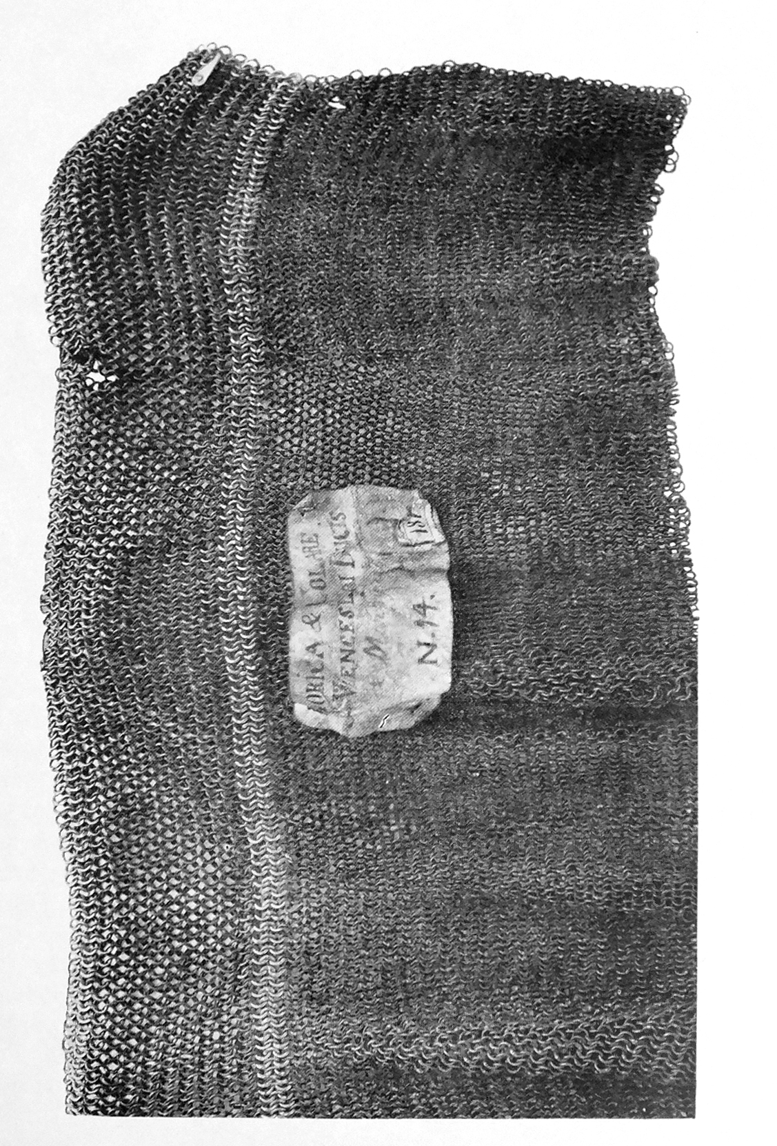 Part of the chainmail of St. Wenceslas with a triple row of golden links.